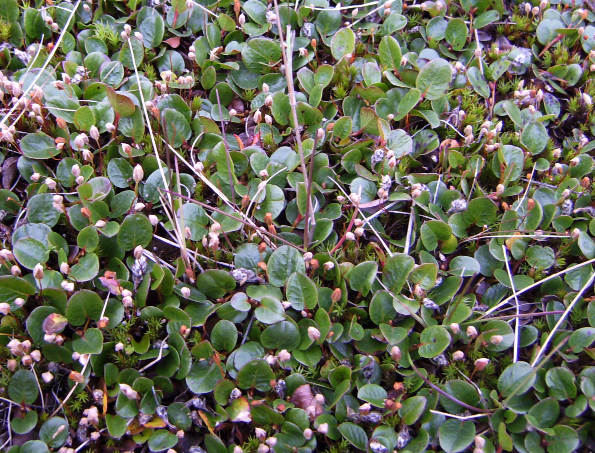 Salix polaris forming a carpet, Longyearbyen, Svalbard